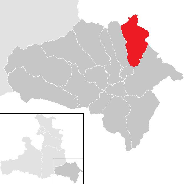 District Tamsweg